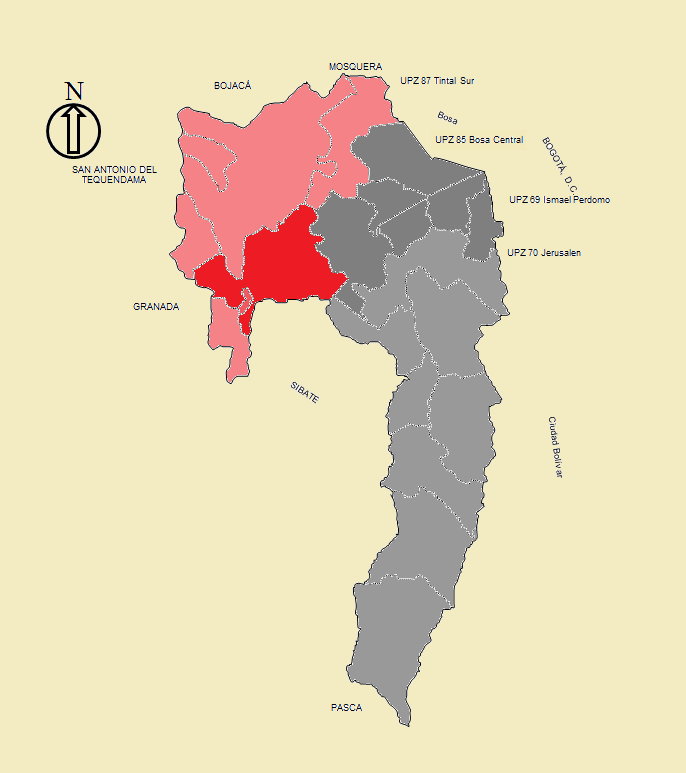 Vereda of El Charquito, to the west of Soacha city